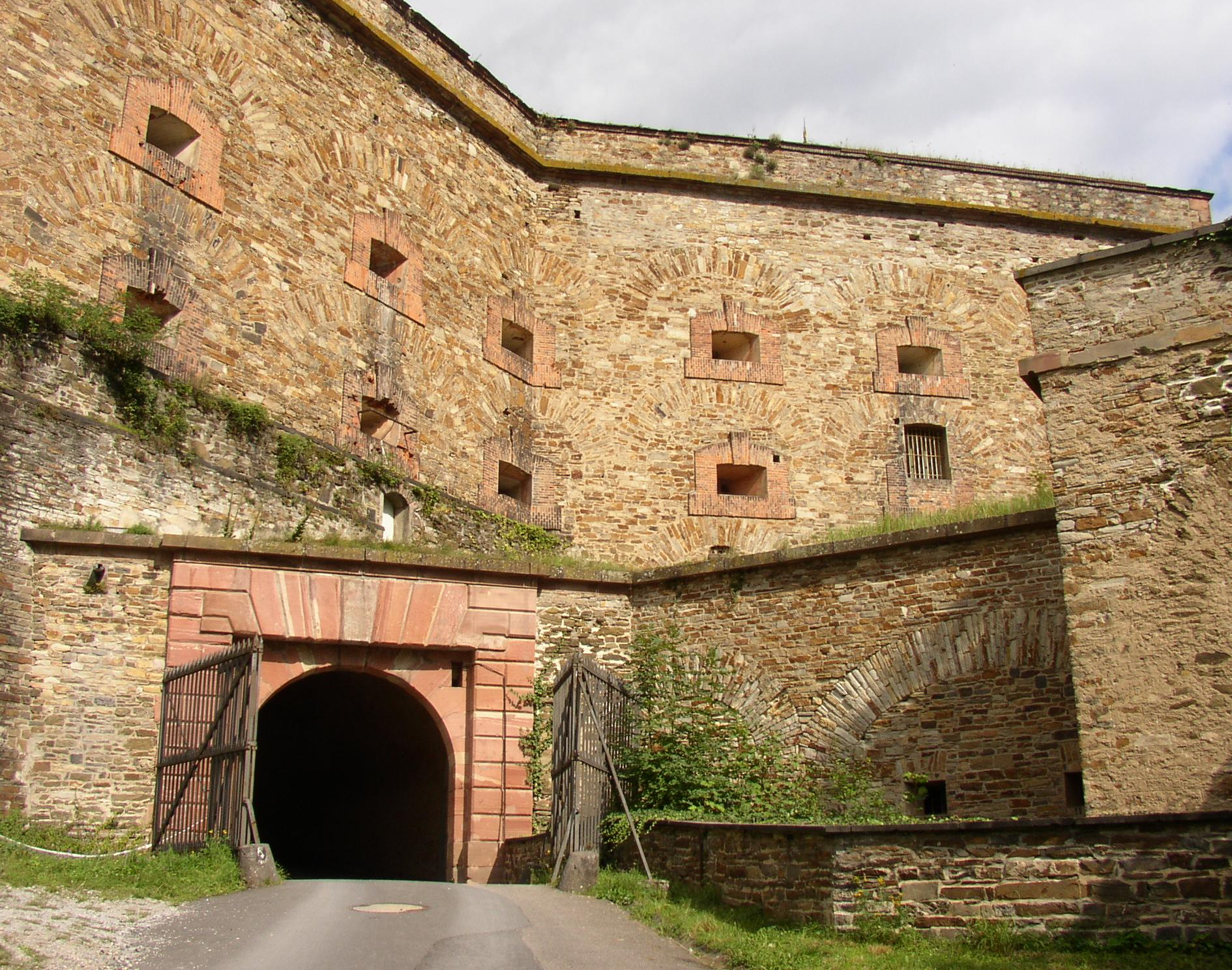 Gate of Festung Ehrenbreitstein in Koblenz-Ehrenbreitstein in Rhineland-Palatinate, Germany